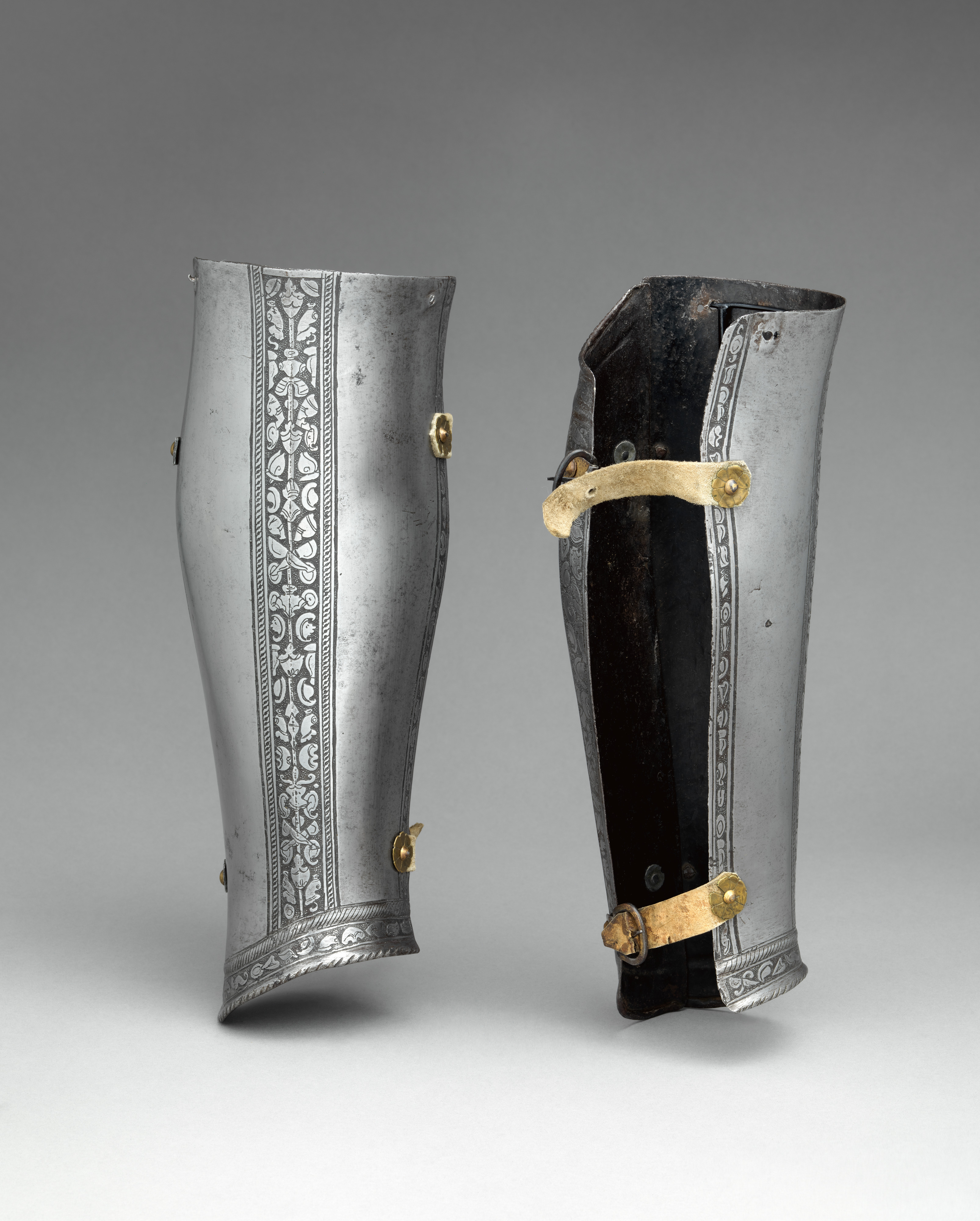 Italian; Pair of greaves (Lower leg defenses); Armor Parts-Greaves